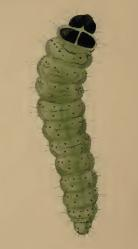 Stainton’s Natural History of the Tineina (1855–1873): Depressaria artemisiae